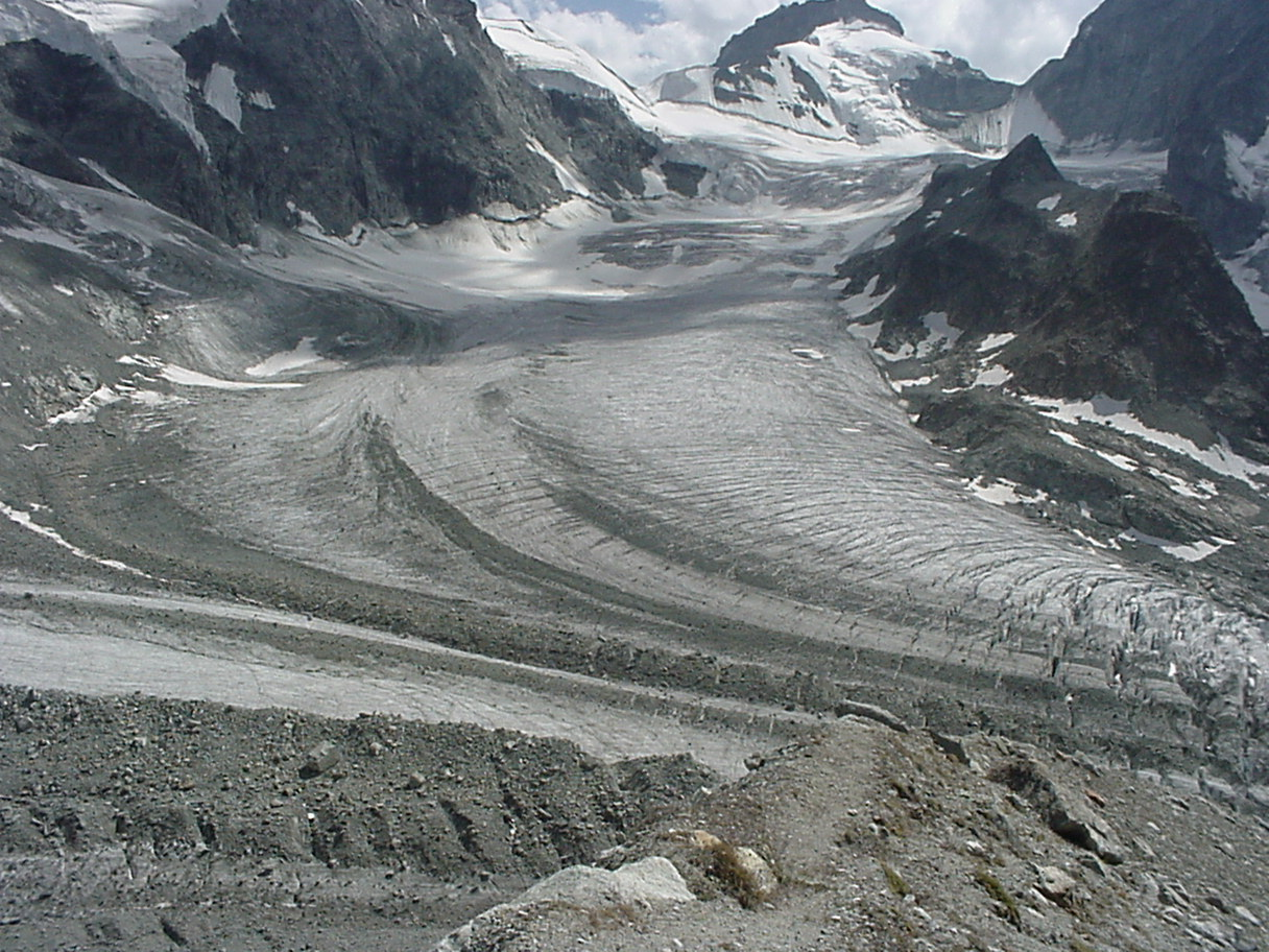 Glacier Durand, part of Zinal Glacier, seen from Cabane du (Grand) Mountet.